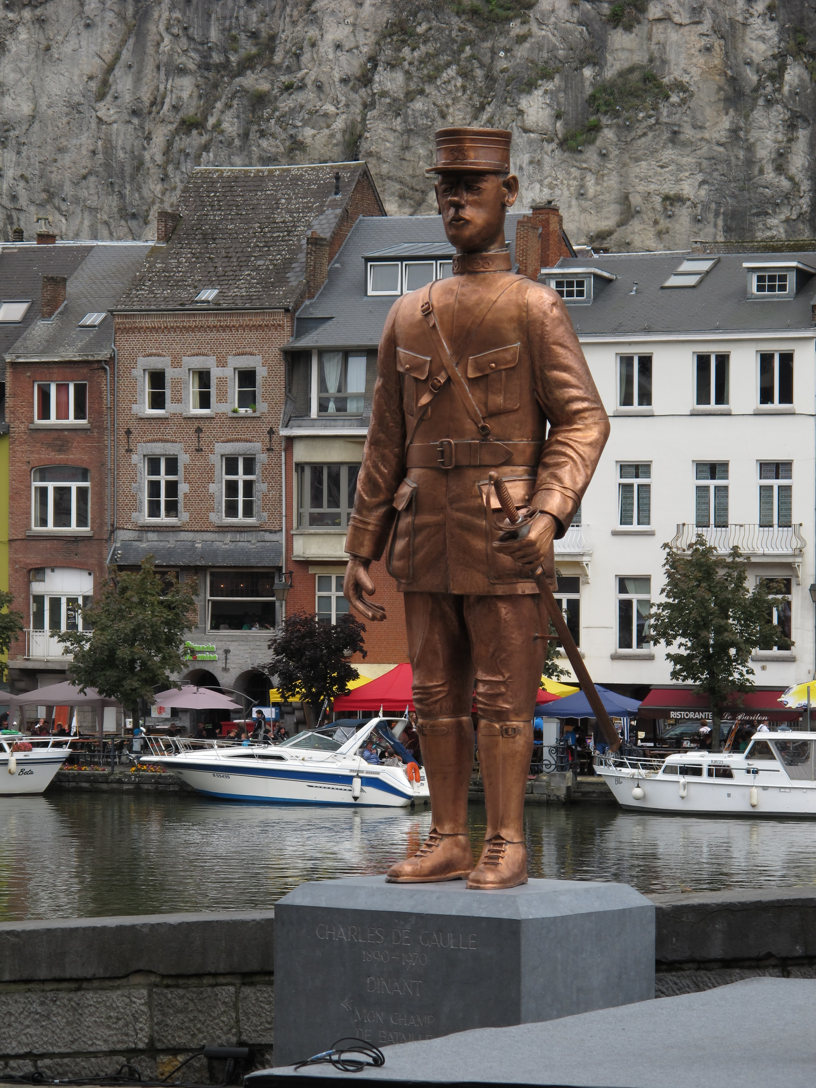 Sculpture Charles de Gaulle in Dinant